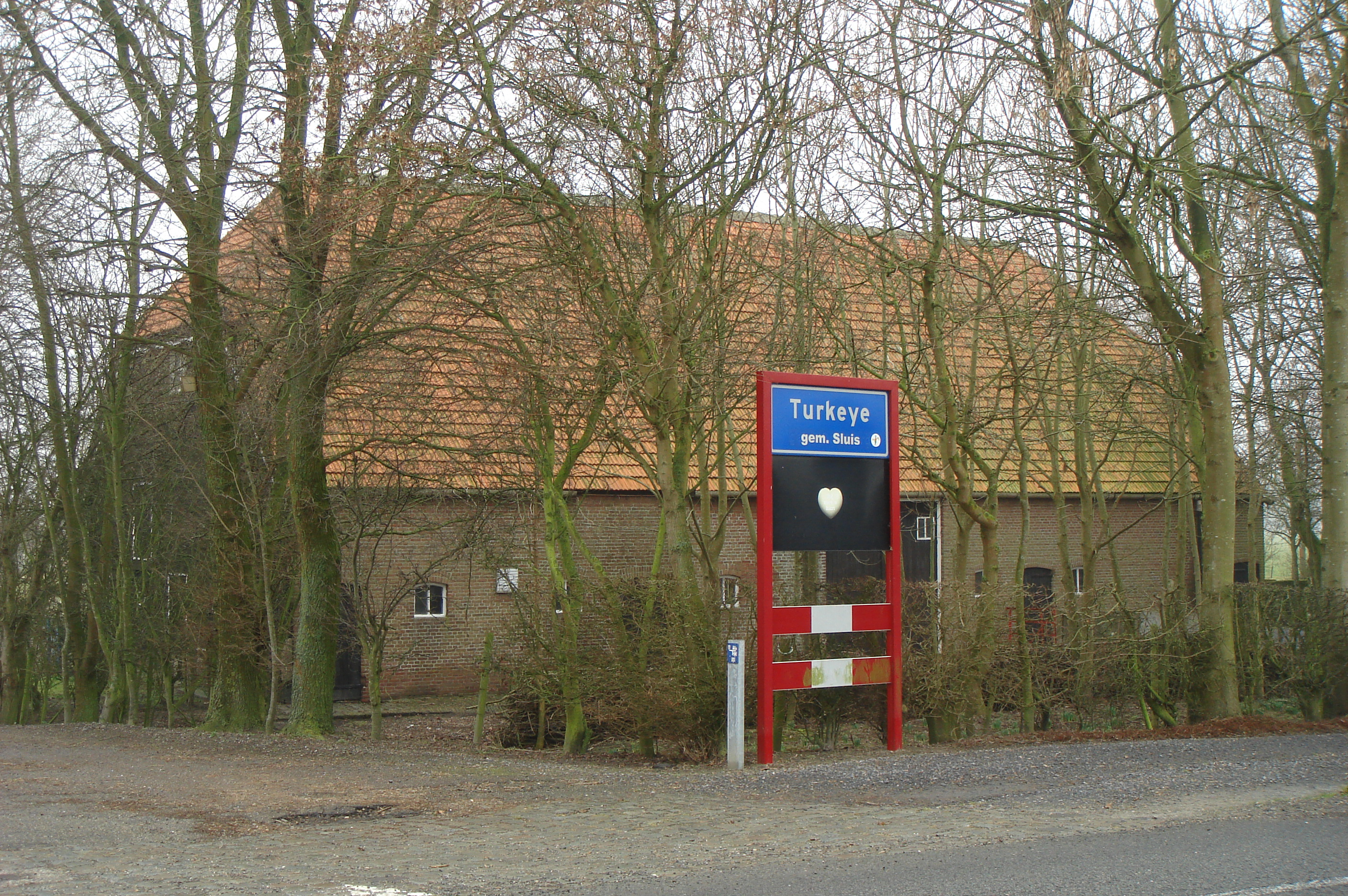 Turkeye, 28 februari 2012. Foto: Daniel van der Ree